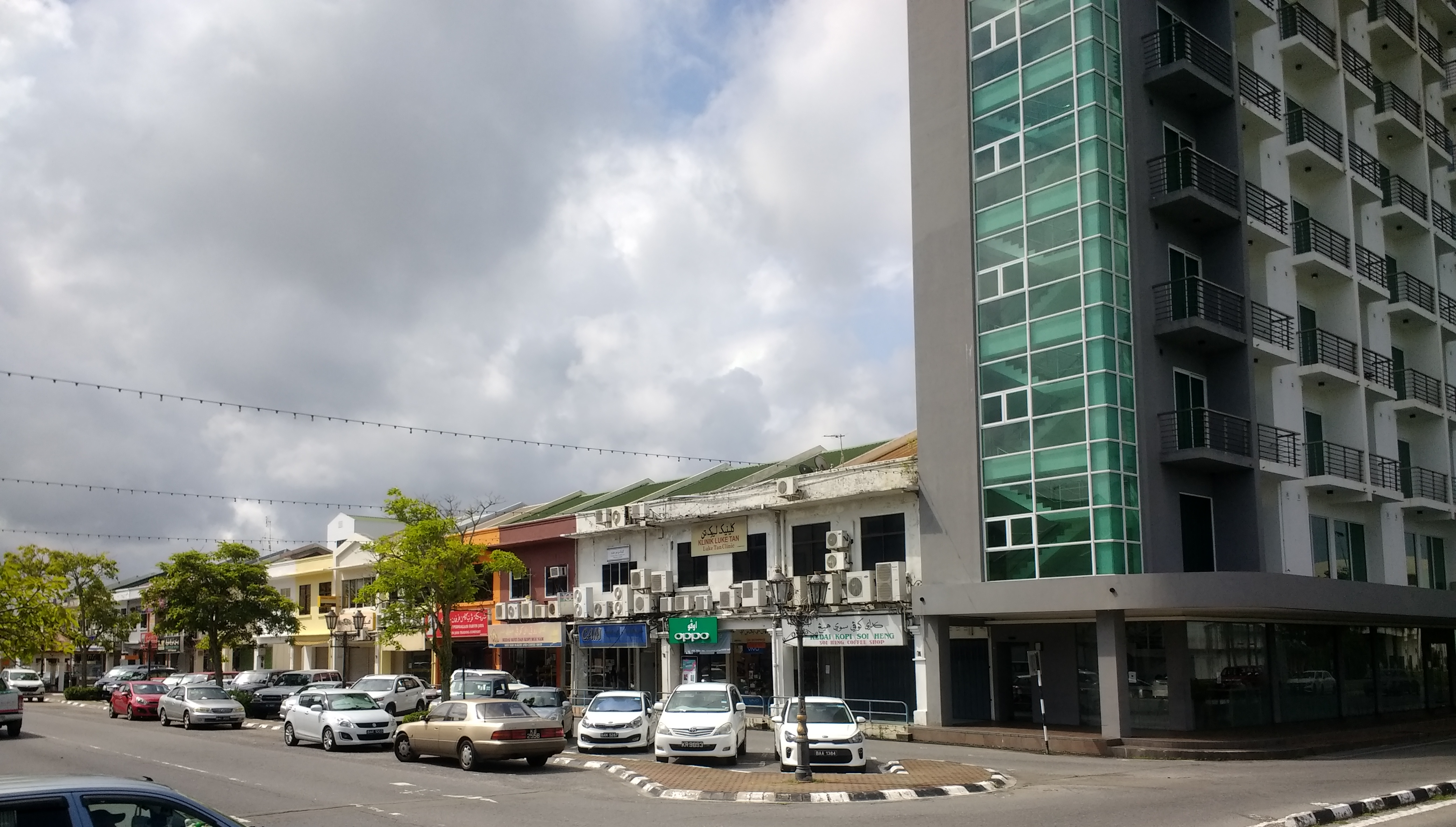 Buildings in Seria, Brunei.